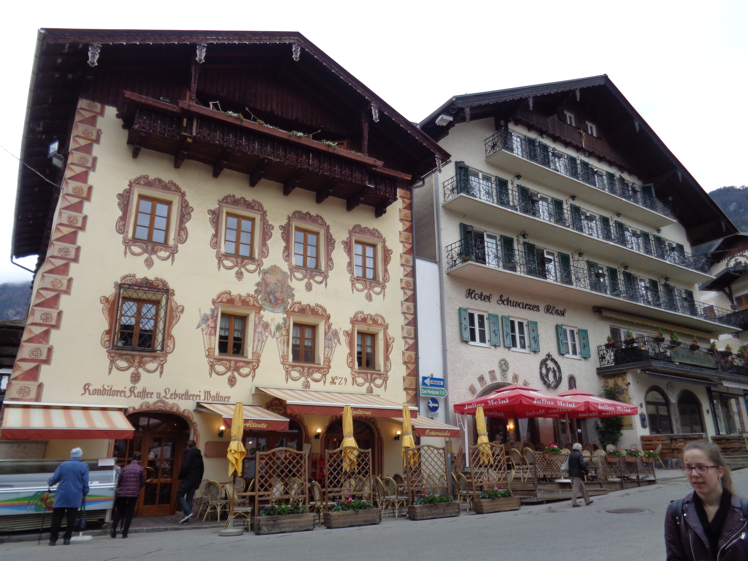 Sankt Wolfgang im Salzkammergut, market town in Upper Austria, Austria - centre